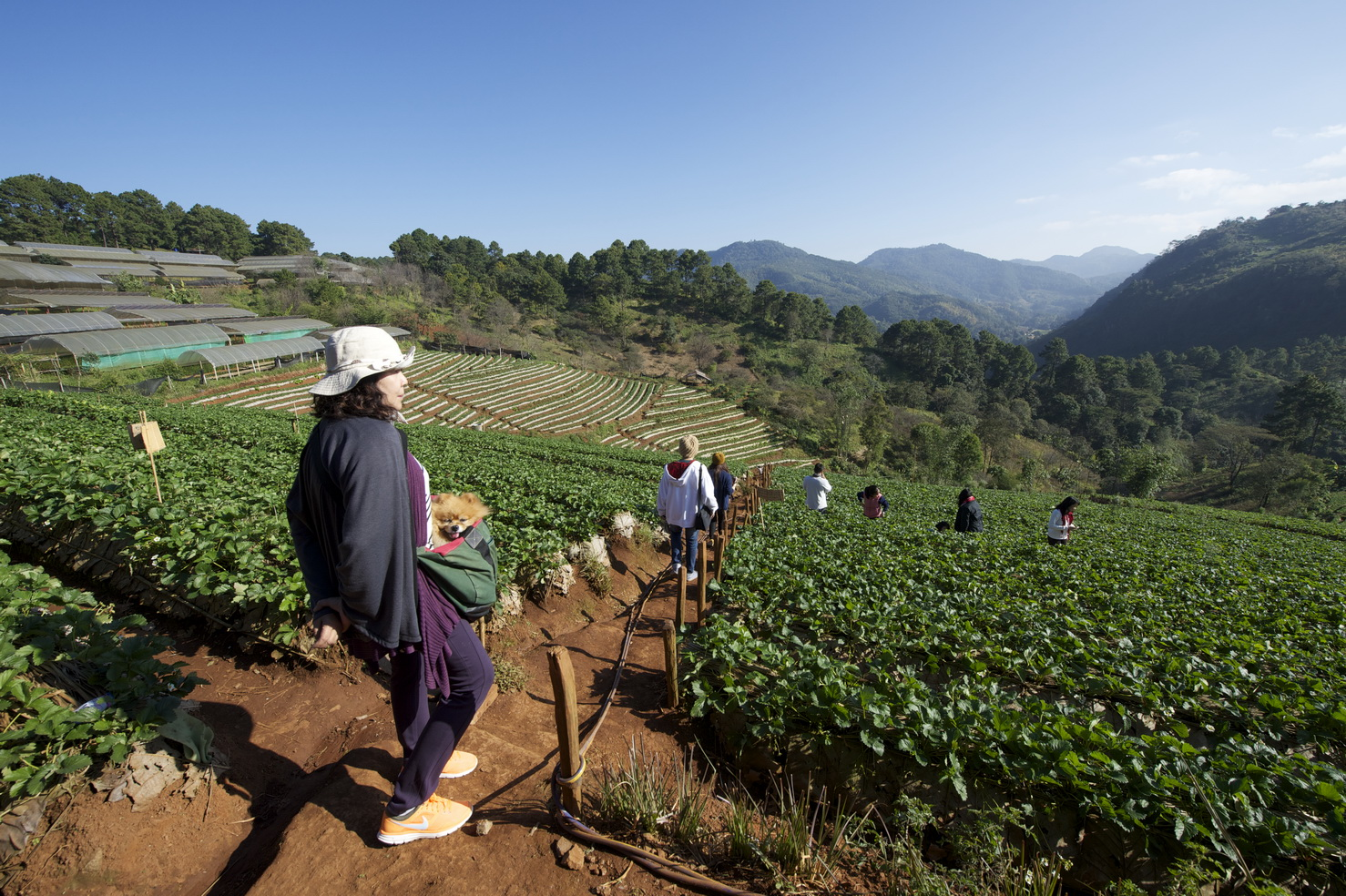 Ang Khang Royl Agricultural Station is established on Doi Ang Khang located in the Fang District, in Chiang Mai province. It is the first station that operates as a project under the royal moot according to the policy of the Royal Project. -The Royal Project was established in B.E. 2512 (1969). His Majesty the King donated personal property to the hill tribes so that they could stop growing opium and turn to grow temperate plants instead. In B.E. 2535 (1992) His Majesty the King ordered the establishment of the Royal Project Foundation. There are 6 research stations, 28 Royal Project Development Centers and 3 factories to produce delicatessens. In winter the temperature in the Doi Ang Khang area is as low as at -7C. With cold weather for a long period of time and beautiful views and comfortable accommodation it is very popular among tourists.